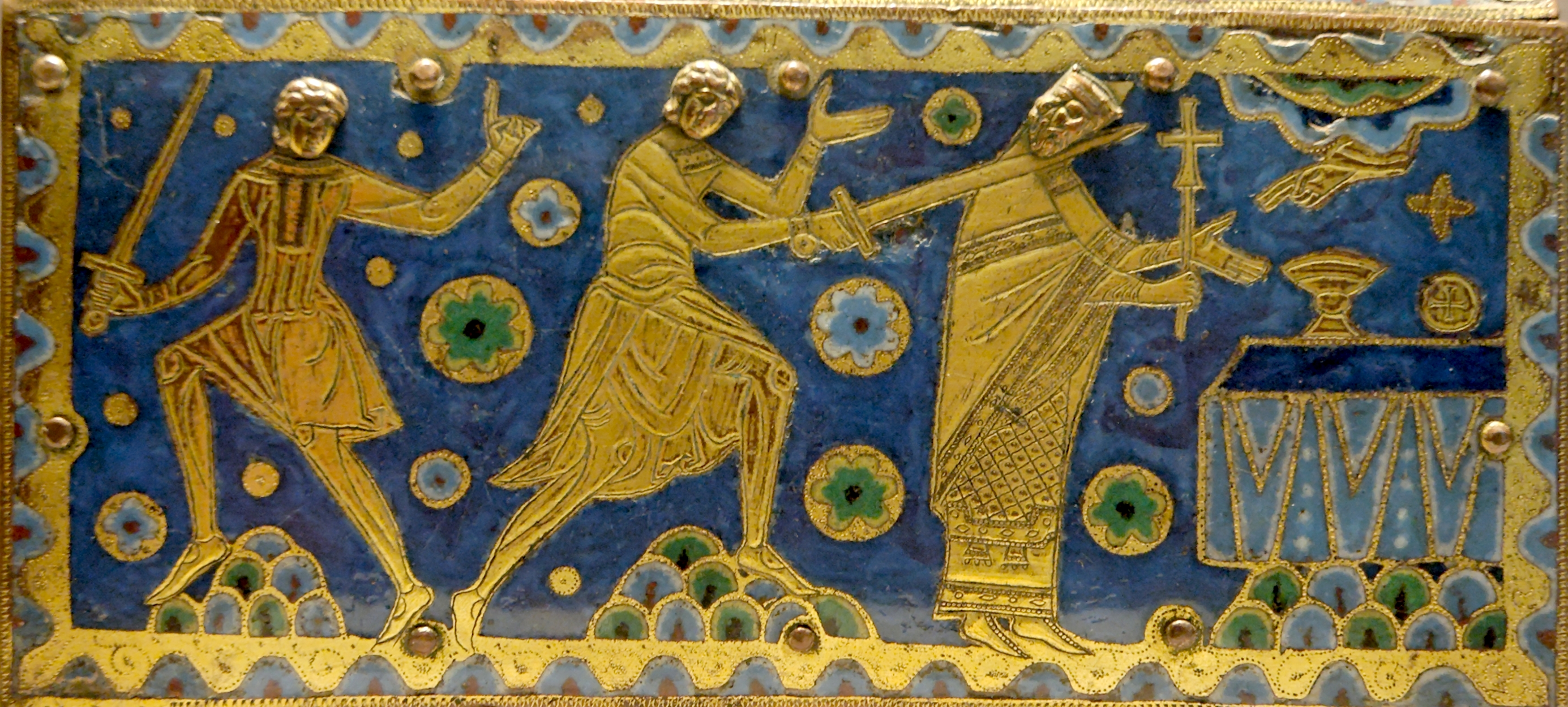 The murder of Thomas Becket, detail from a reliquary. Champlevé enamel over gilt copper, Limoges (Limousin, France).